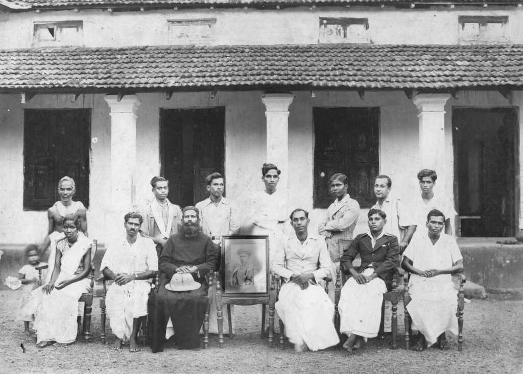 A joint photograph of teachers of Government Lower Primary School, Vadavucode, and Rajarashi Memorial School, Vadavucode, from the early 1940s